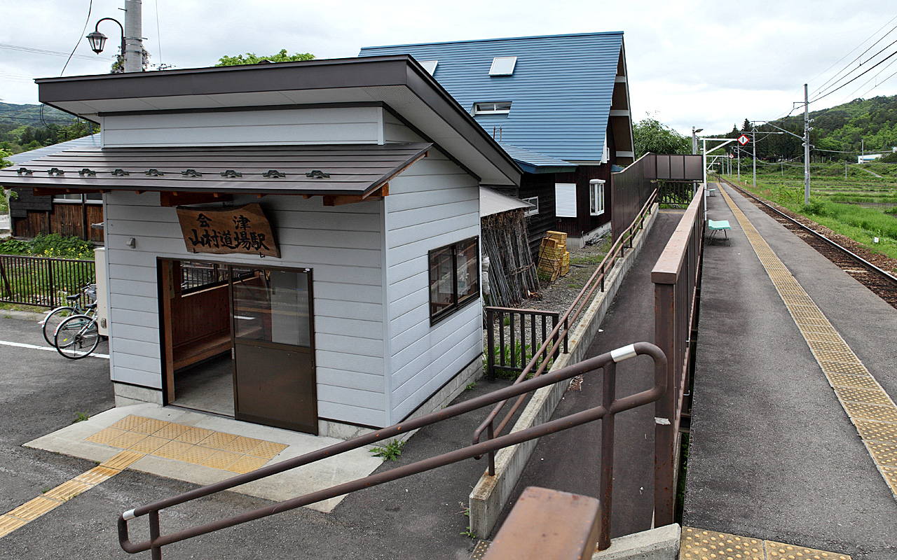 Aizu Railway Aizu-Sanson-Dōjō Station